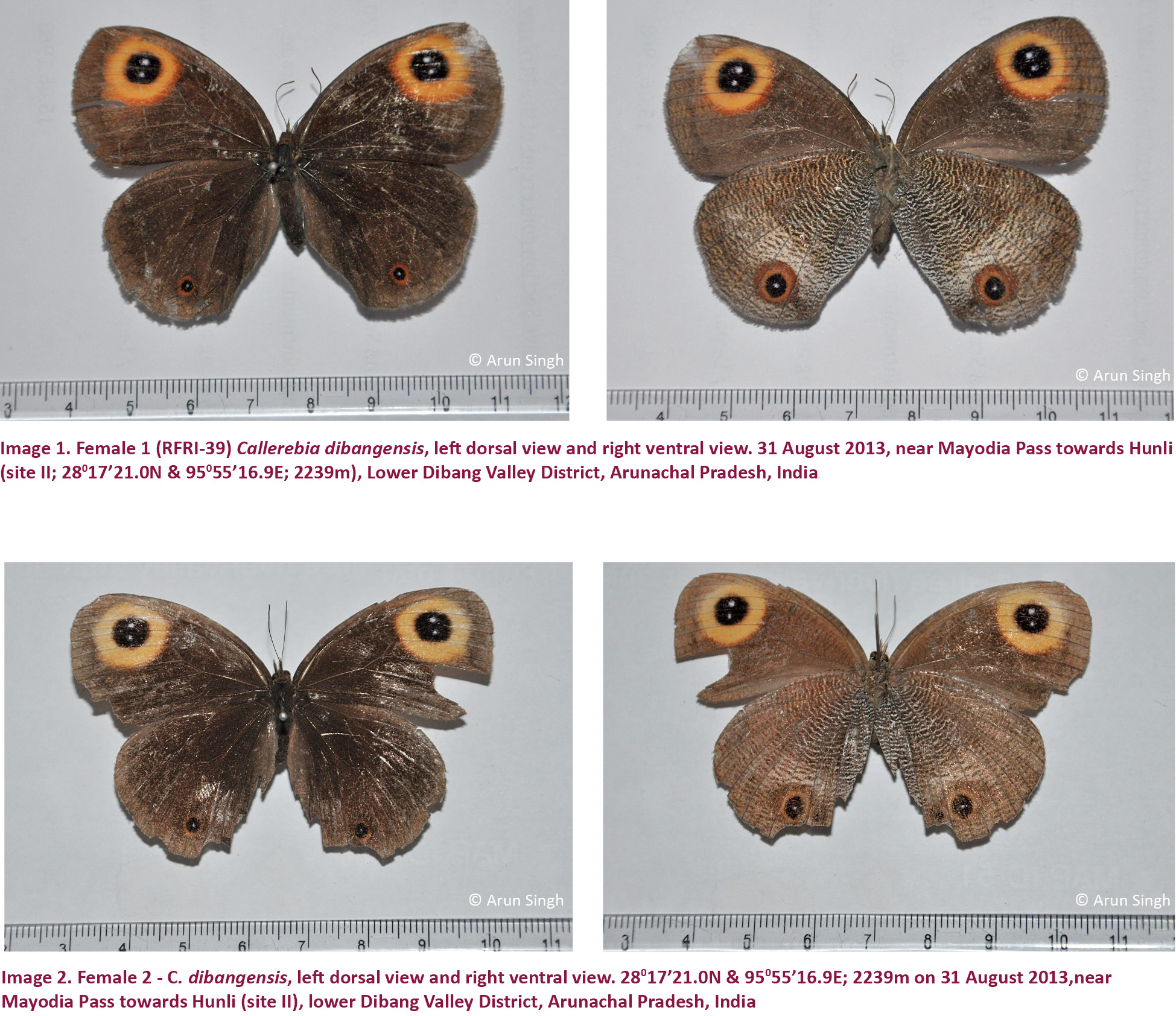 On the female morphs, ecology and male genitalia of Callerebia dibangensis Roy (Lepidoptera: Nymphalidae: Satyrinae) recorded near Mayodia Pass in lower Dibang Valley, Arunachal Pradesh, India. Journal of Threatened Taxa 7(5): 7168–7174